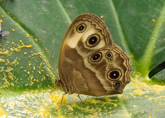 Bobiri, Ghana